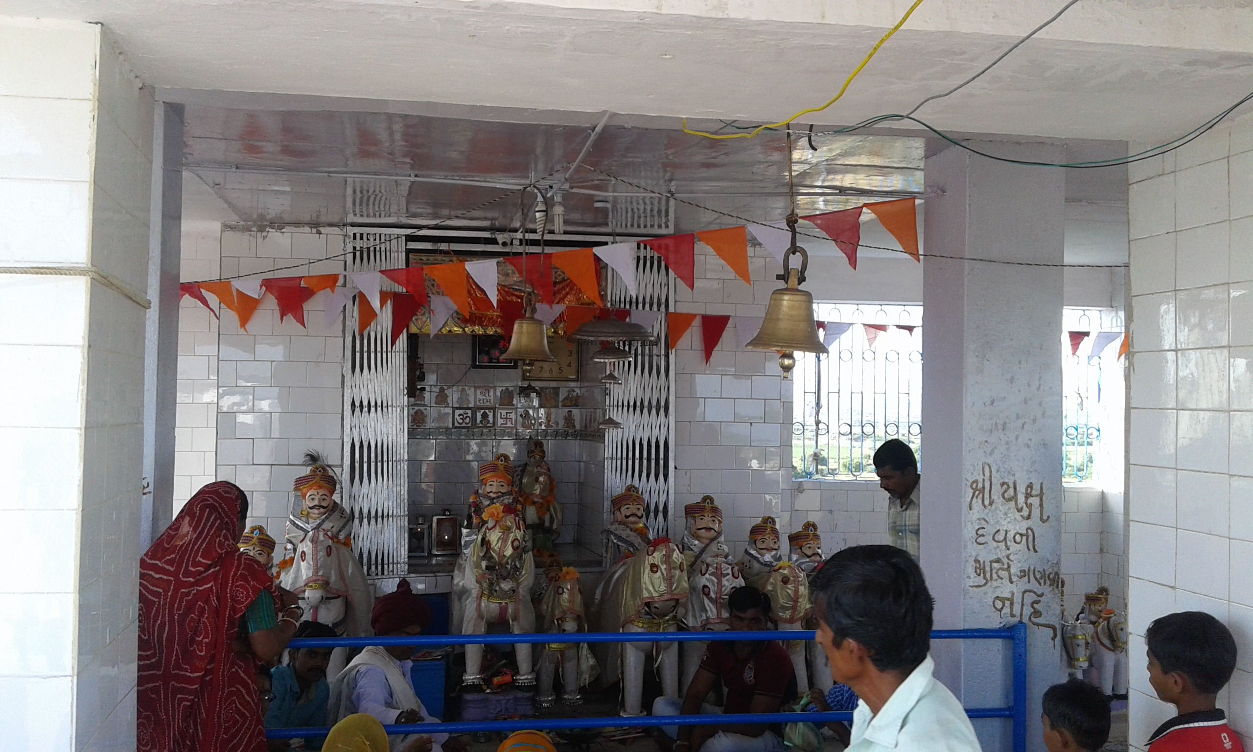 Jakh Bahotera are group of folk deities worshiped in Kutch region of Gujarat, India. Image of central idols is taken at temple at Kakadbhit (Mota Yaksh) near Nakhtrana, near Bhuj, Kutch, Gujarat, India.